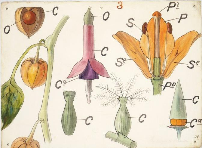 Diagram, about 1855, Christopher Dresser V&A Museum no. 3968 Techniques - Water- and body-colour on paper, laid on canvas Place - London, England Dimensions - Height 55 cm, Width 75.5 cm Object Type - Christopher Dresser (1834-1904) produced this diagram to illustrate the lectures on botany that he gave at the Government School of Design in London in the mid-1850s. It is one of several surviving examples that show how he taught botanical drawing. In this clear drawing the elements of the flowers are shown in a diagrammatic form, which helped Dresser to explain principles of biology. People - Dresser began his career in botany and teaching. He was appointed as a lecturer in botany at the Government School of Design in 1854. In 1856 the designer and architect Owen Jones (1809-1874) invited Dresser to illustrate a plate on plants and flowers for his book, Grammar of Ornament, which looked at different styles of decoration. Design & Designing - Dresser believed that everyone can appreciate of the underlying geometry of living things and the patterns that derive from them. Dresser's interest in plants was mainly in the forms and designs they displayed during growth. He felt that by understanding the basic patterns upon which all things were constructed, the designer would know how to bring together seemingly very different and exotic forms into a new style.